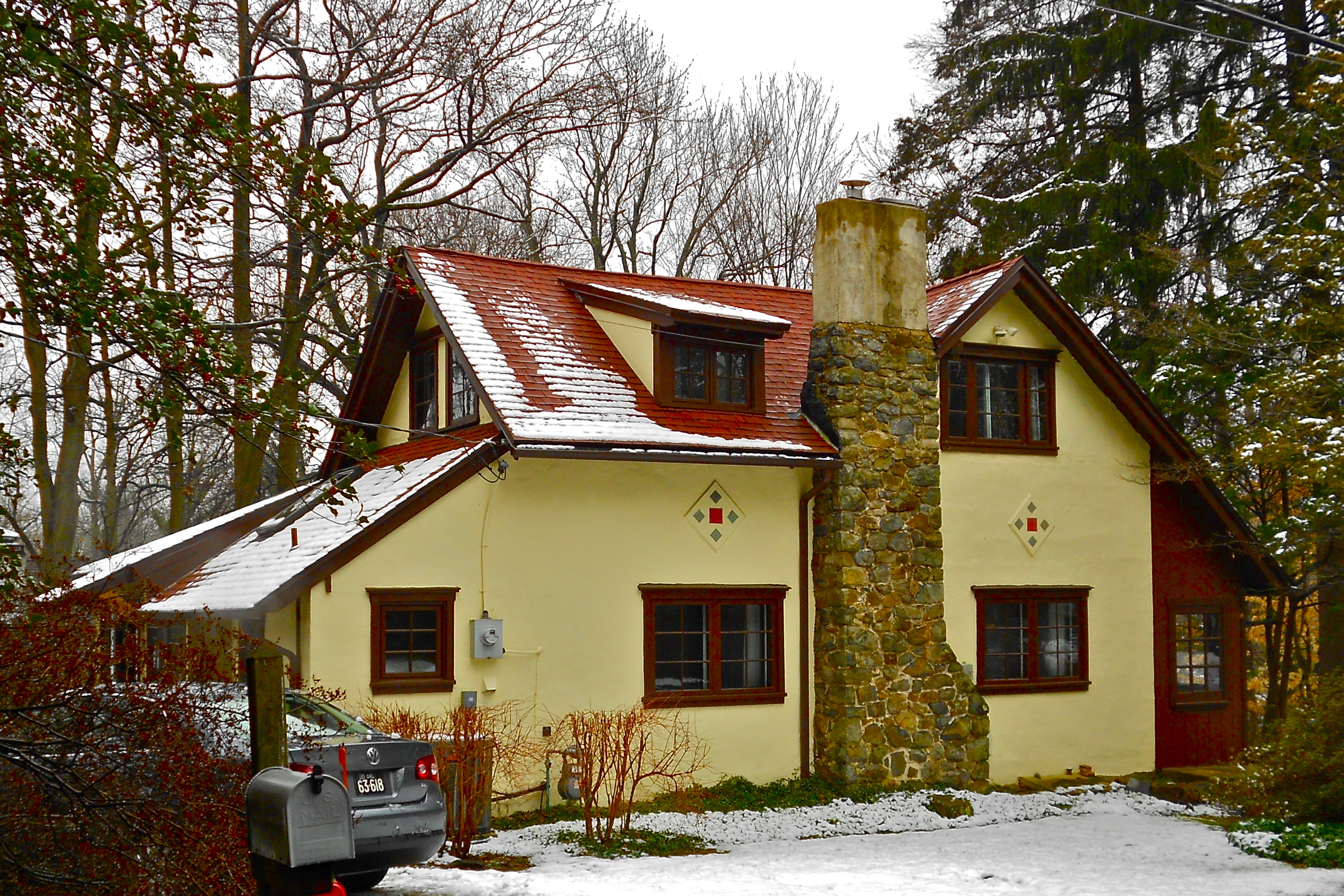 Cottage in Arden, Delaware on the National Register of Historic Places